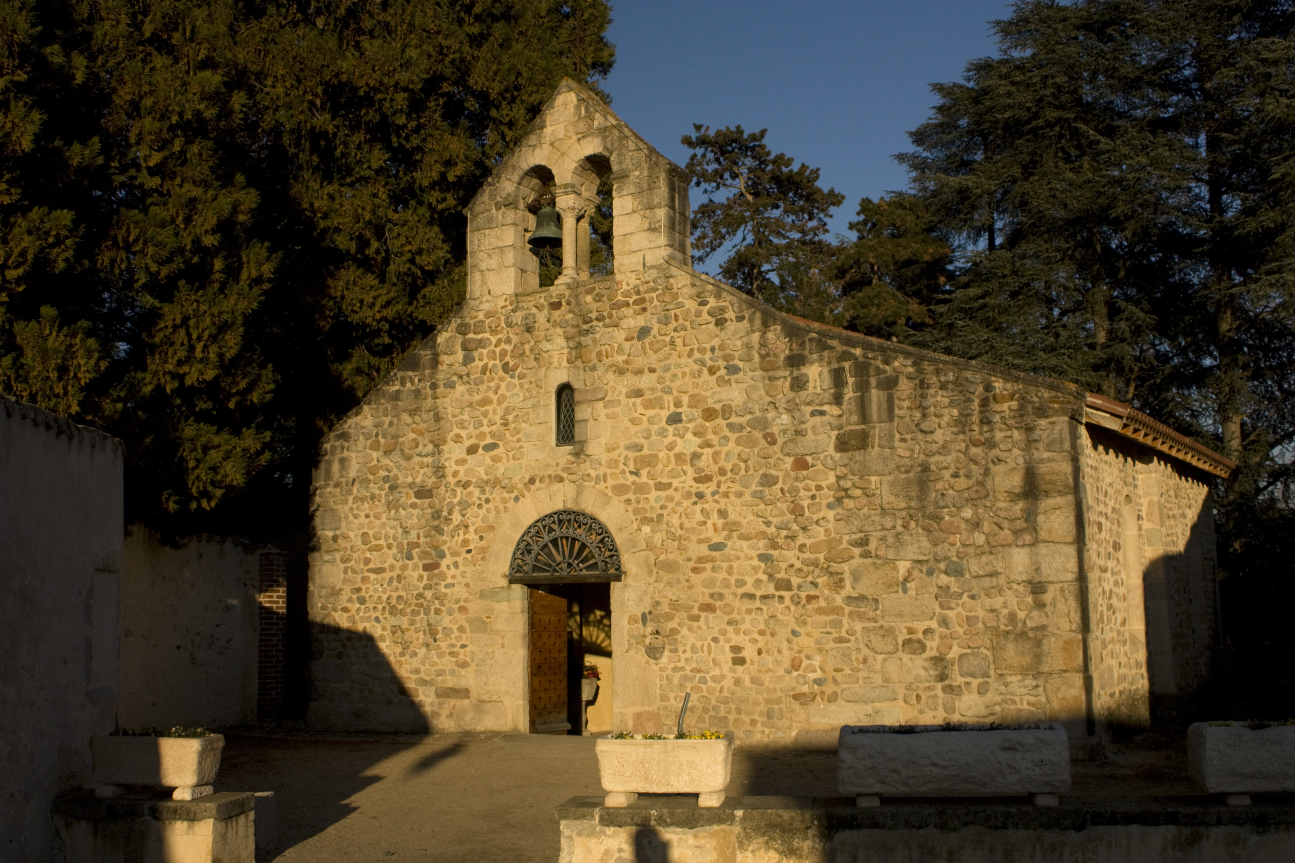 Our Lady's Chapel, 11th, and 16th centuries.